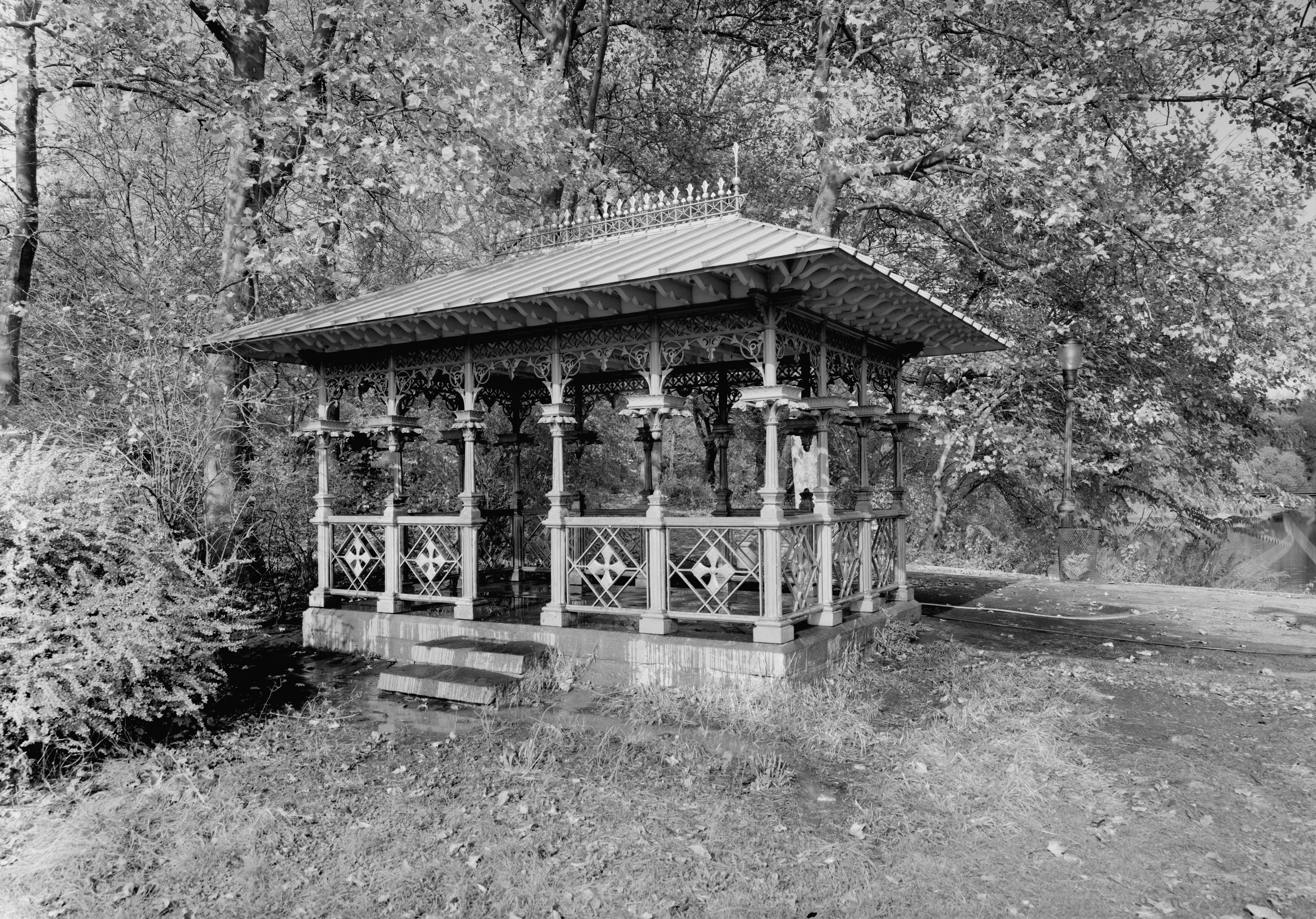 View of Ladies Pavilion looking south. West side of Lake